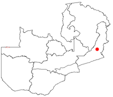 Map: Gwembe, town and district in the southern province of Zambia